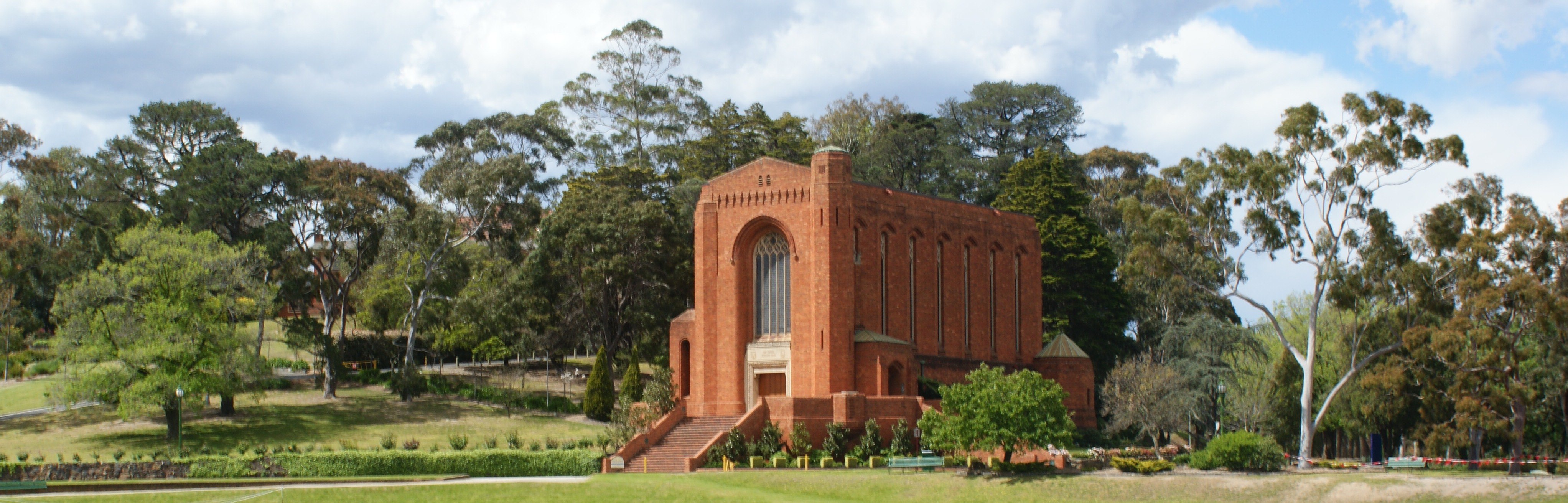 Littlejohn Memorial Chapel and the Hill at Scotch College, Melbourne